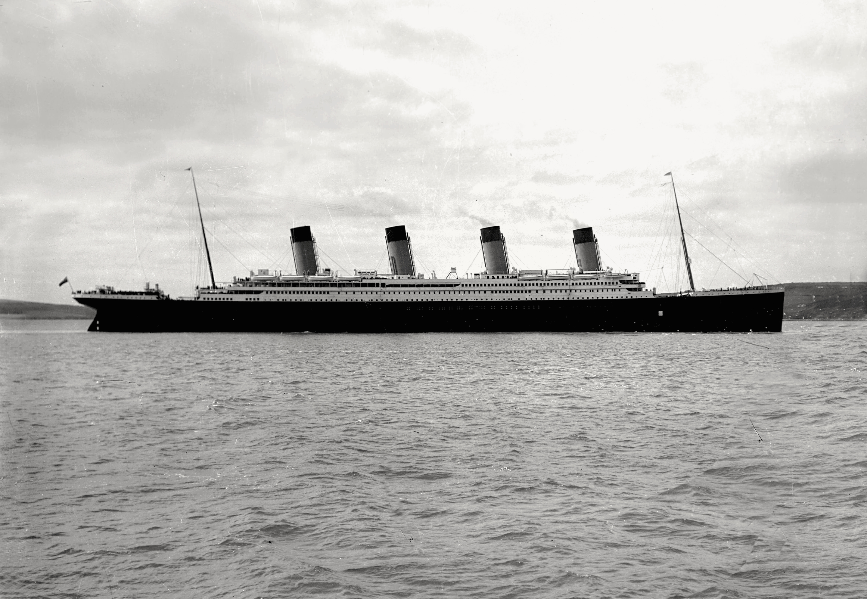 The Titanic pictured in Cobh Harbour, 11 april 1912